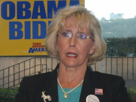 Lilly Ledbetter.